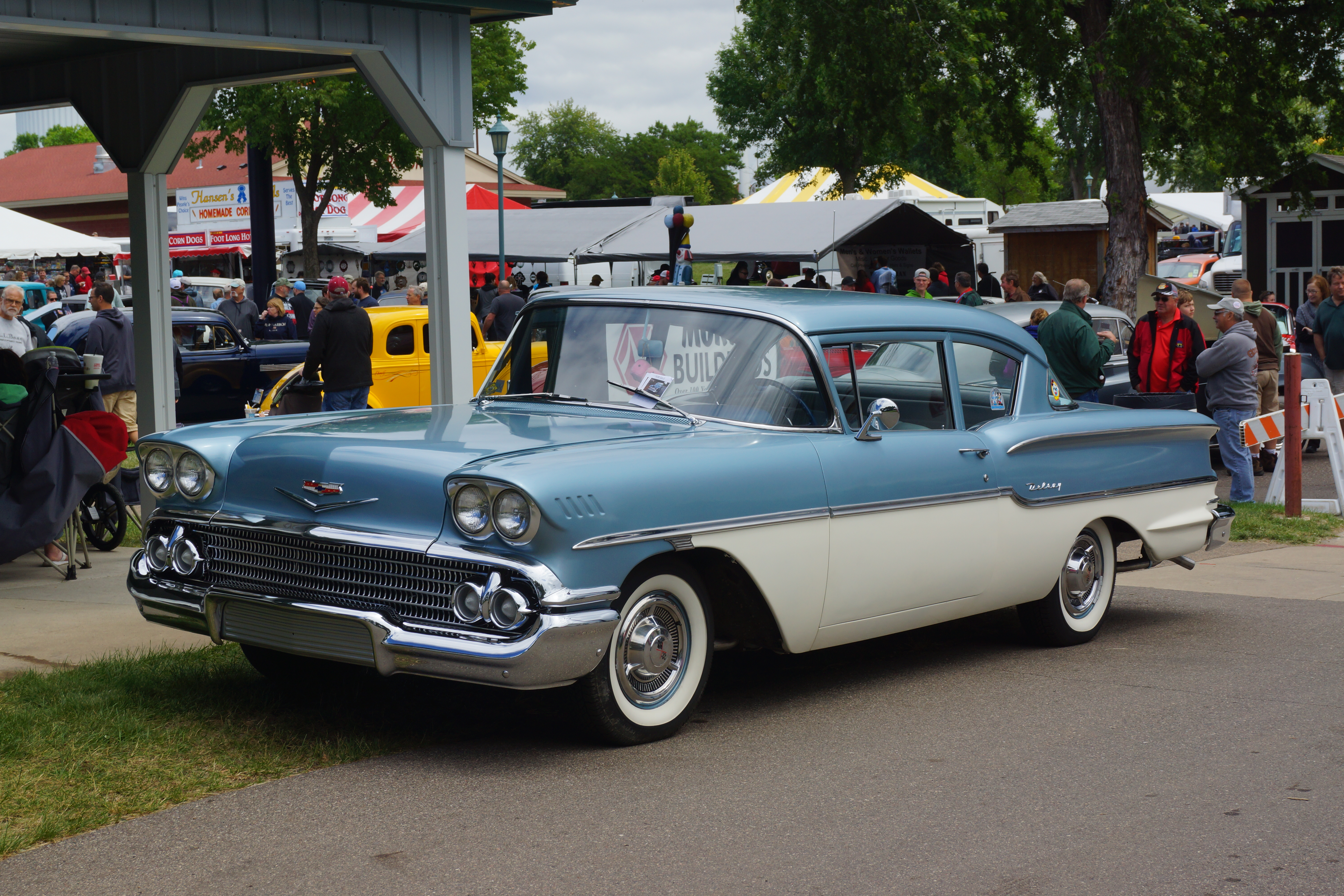 Minnesota Street Rod Association (MSRA) “BACK TO THE 50′s” 44th Annual Car Show June 23-25, 2017 Minnesota State Fairgrounds St. Paul Minnesota Space Tower view of "Back to the 50's". Click here for previous "Back to the 50's" pictures.. Click here for more car pictures at my Flickr site. Or here for my Car Crazy Tumblr site. Or on Twitter @DVS1mn.